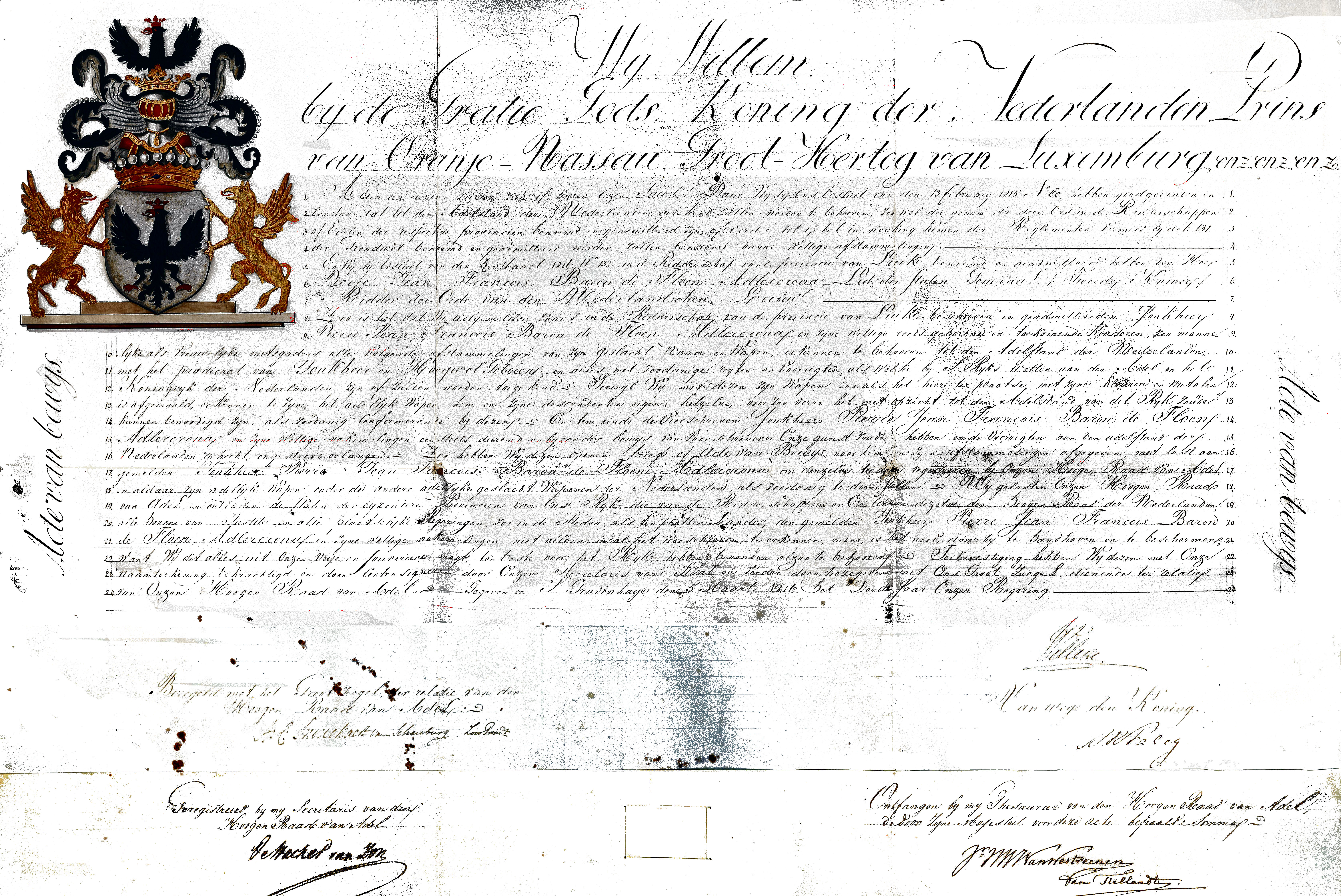 Baron Pierre Jean François de Floen Adlercrona letter patents received from Willem of the Netherlands.